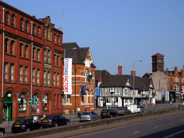 The Custard Factory and the Old Crown Inn in Digbeth, Birmingham.